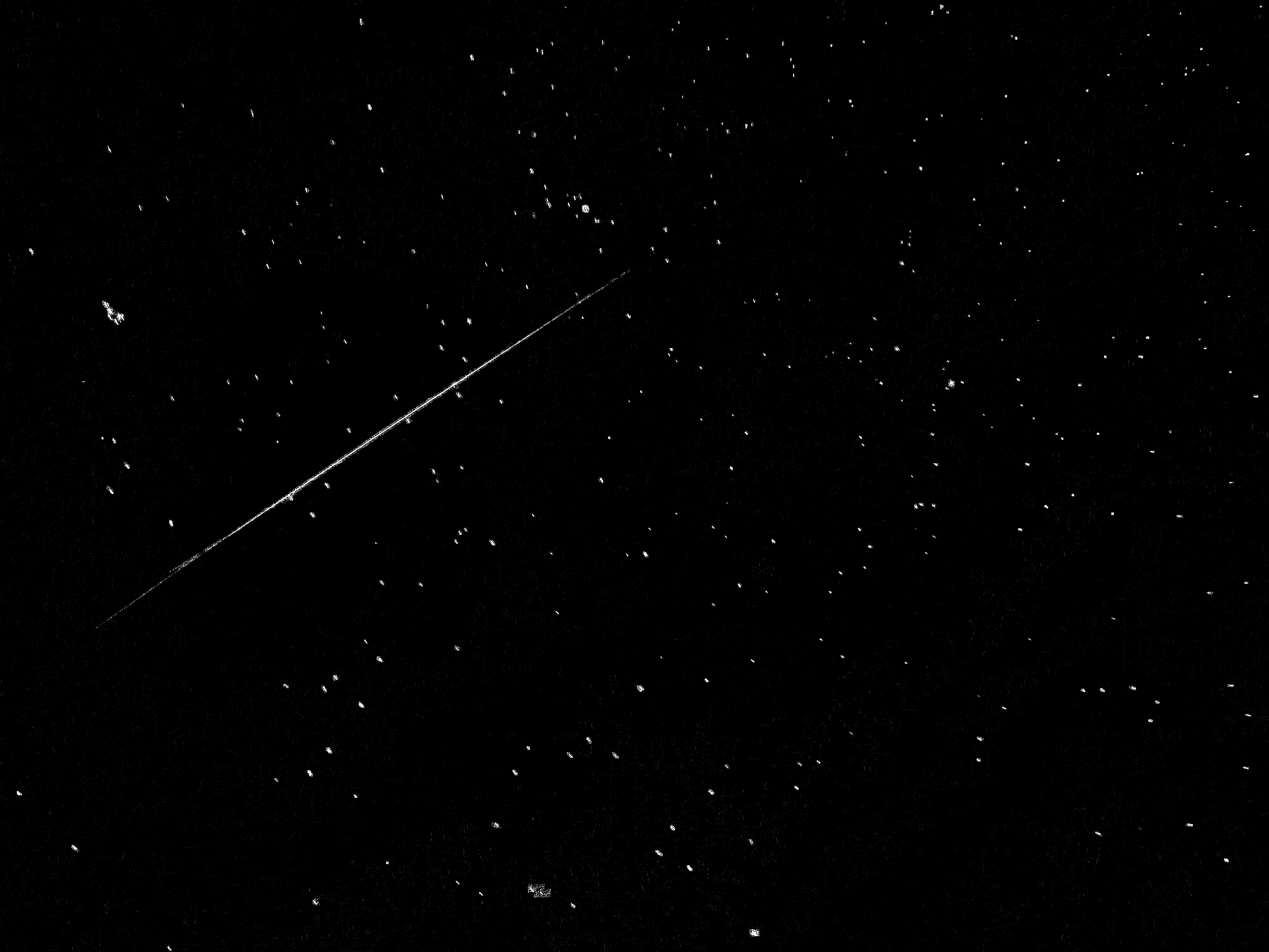 An image of a magnitude -1.7 flare from a COSMO-SkyMed satellite above the UK, by George Kristiansen (